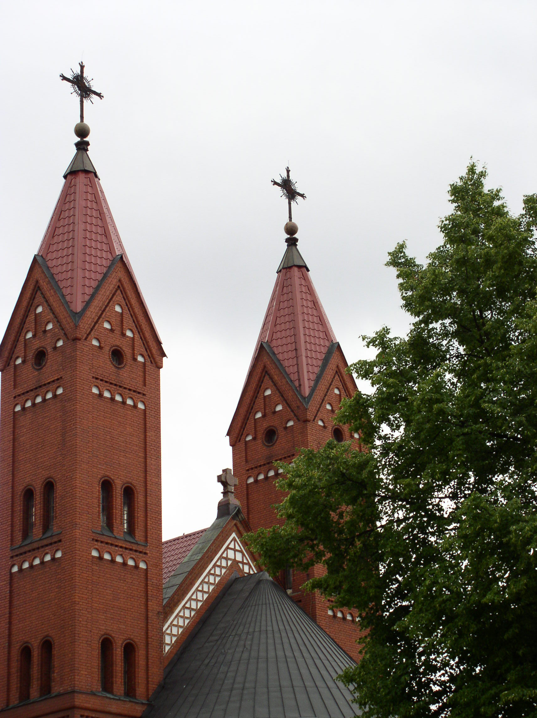 Church of Saint Simon and Helena, Minsk, Belarus.